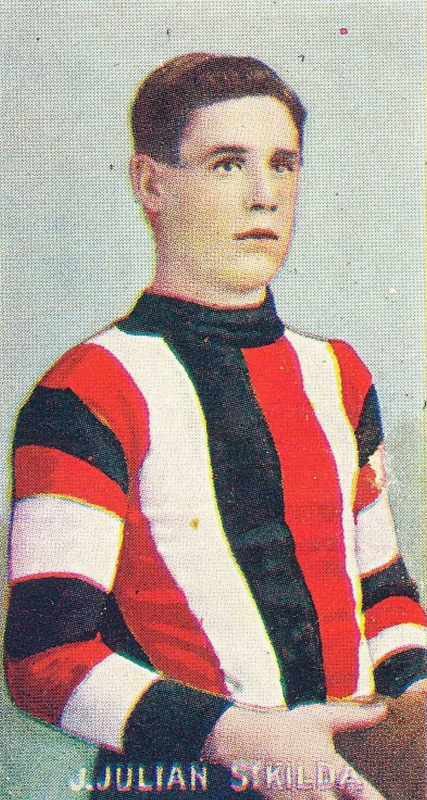 Cigarette card of Jack Julian from the Sniders & Abrahams 1907 series